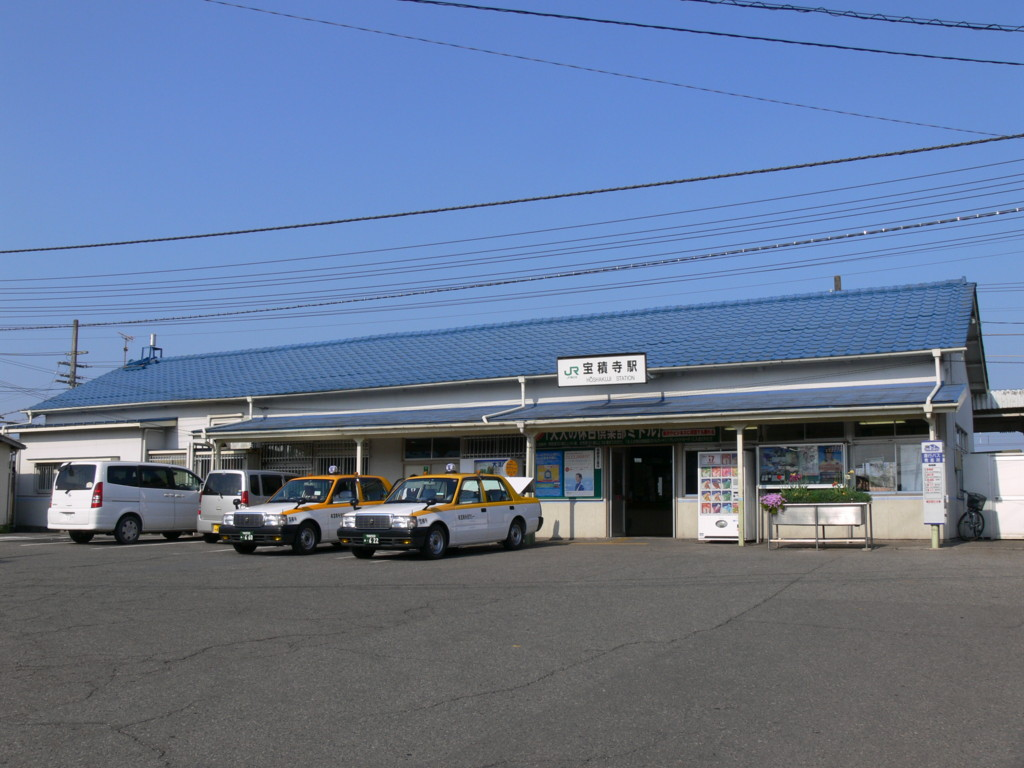 Hoshakuji Station before rebuilding